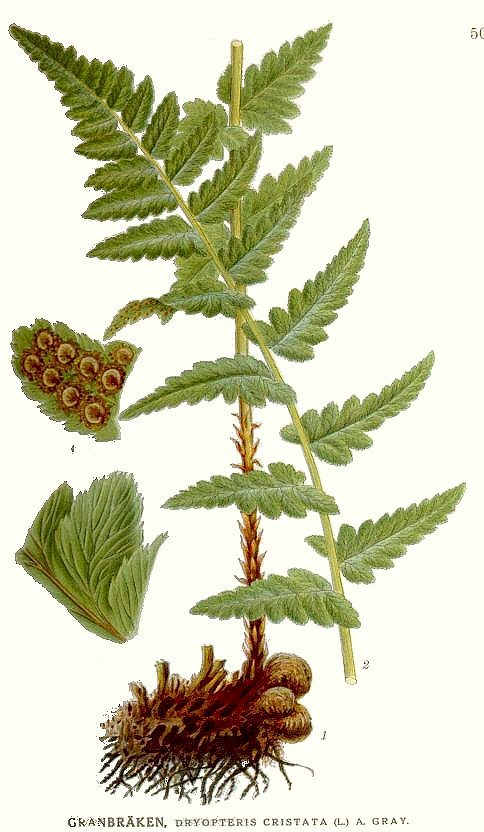 Original Description Granbräken, Dryopteris cristata (L.) A. Gray.